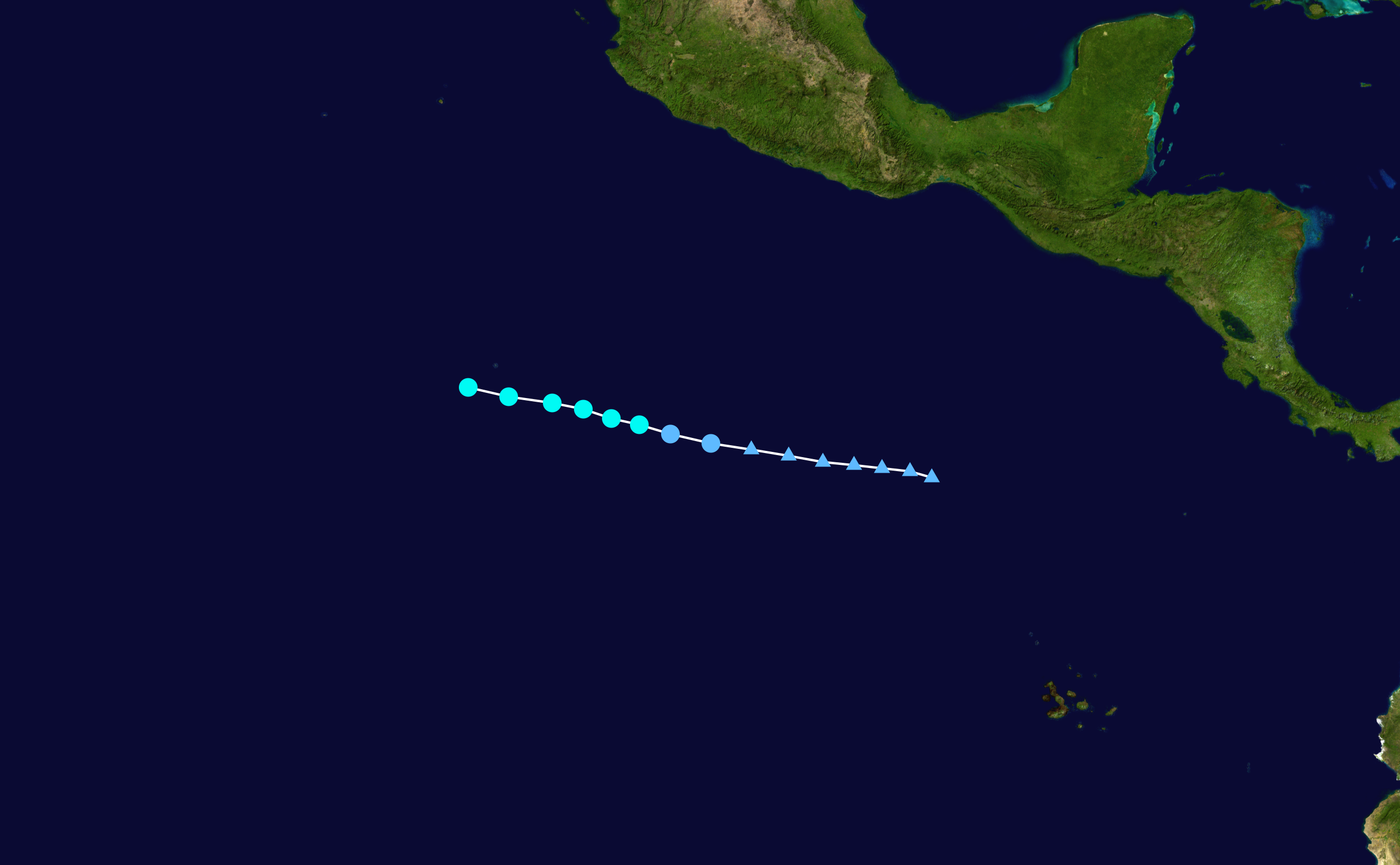 Track map of Tropical Storm Alvin of the 2013 Pacific hurricane season. The points show the location of the storm at 6-hour intervals. The colour represents the storm's maximum sustained wind speeds as classified in the Saffir–Simpson scale (see below), and the shape of the data points represent the nature of the storm, according to the legend below. Saffir–Simpson scale Tropical depression≤38 mph≤62 km/h Category 3111–129 mph178–208 km/h Tropical storm39–73 mph63–118 km/h Category 4130–156 mph209–251 km/h Category 174–95 mph119–153 km/h Category 5≥157 mph≥252 km/h Category 296–110 mph154–177 km/h Unknown Storm type Tropical cyclone Subtropical cyclone Extratropical cyclone / Remnant low / Tropical disturbance / Monsoon depression